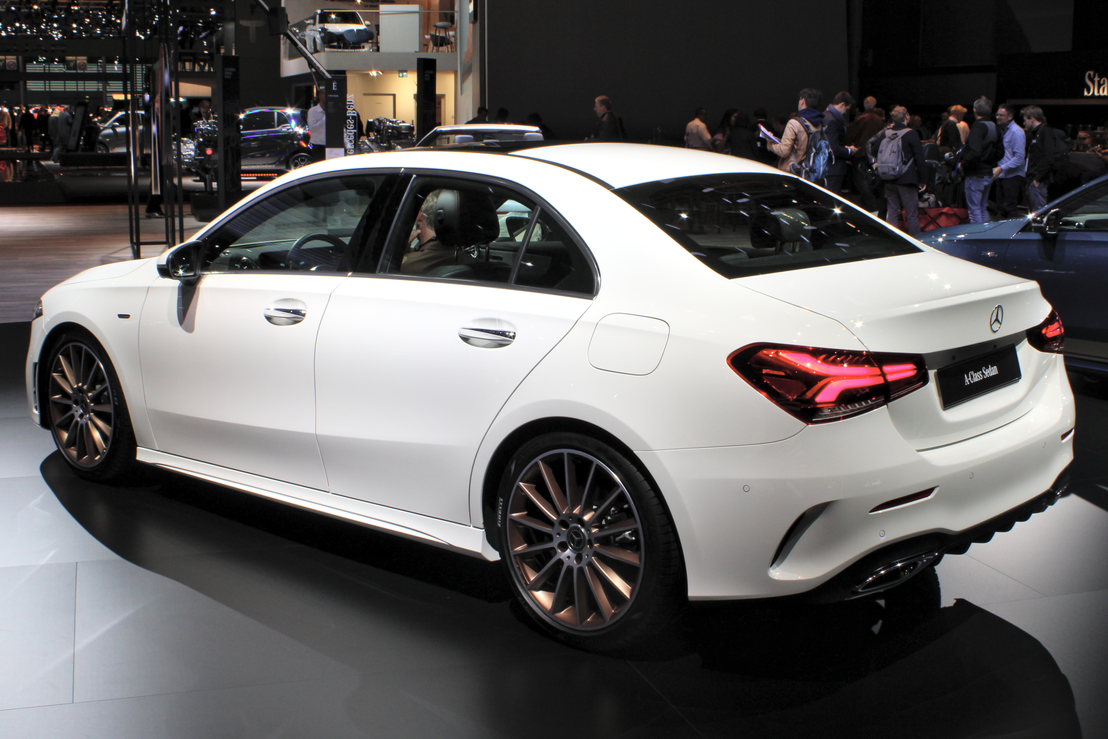 Mercedes-Benz A Sedan at Paris Motor Show 2018